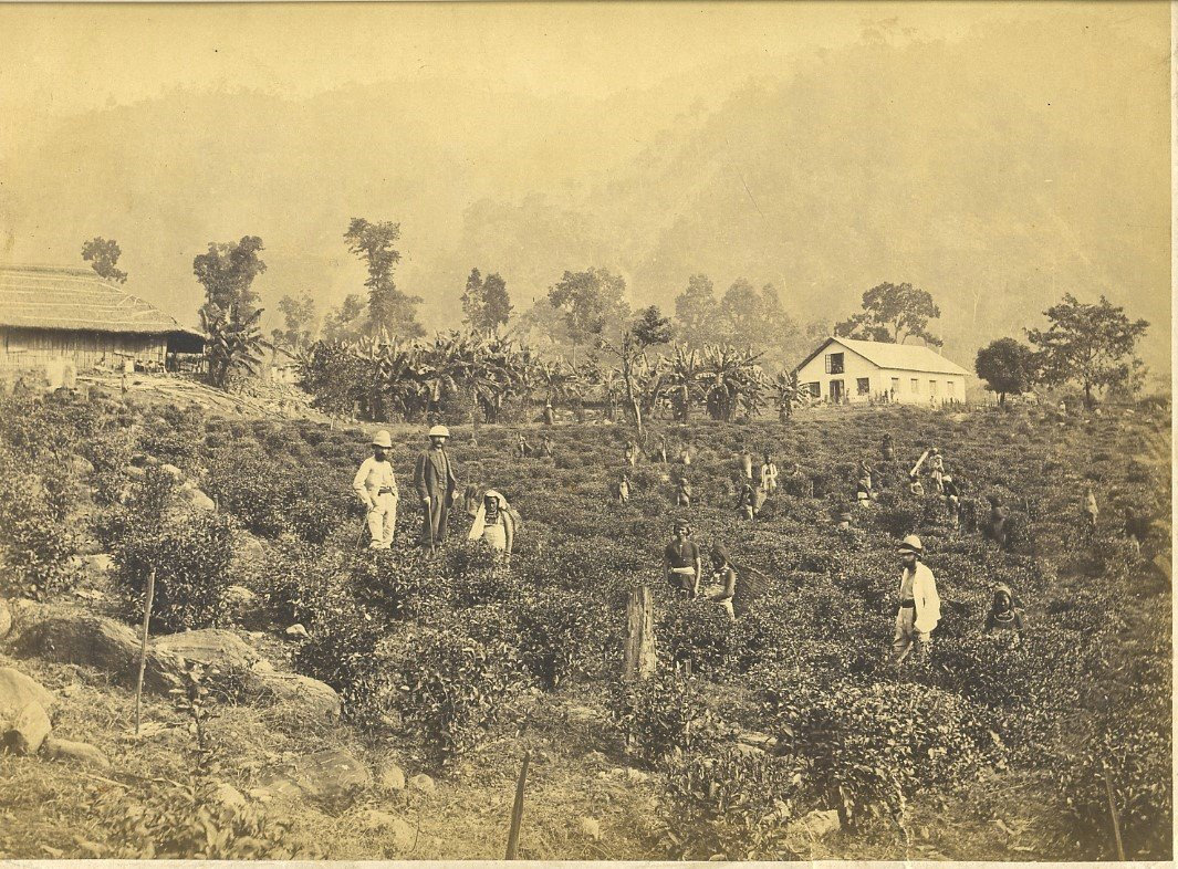 Tea pickers and owners, Darjeeling